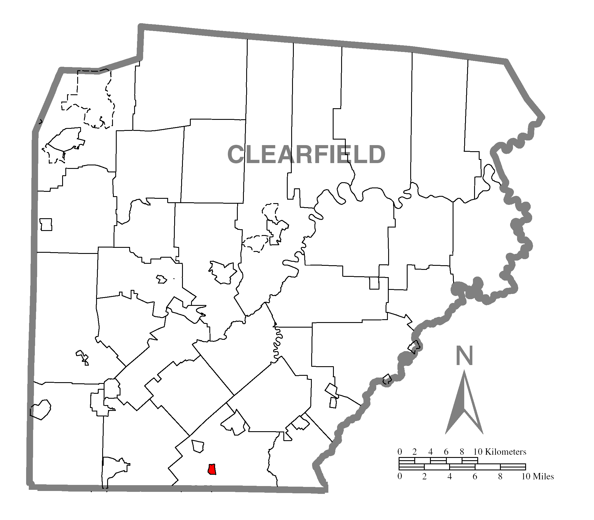 A map of Clearfield County showing Coalport, Pennsylvania (alternate) highlighted on the map.